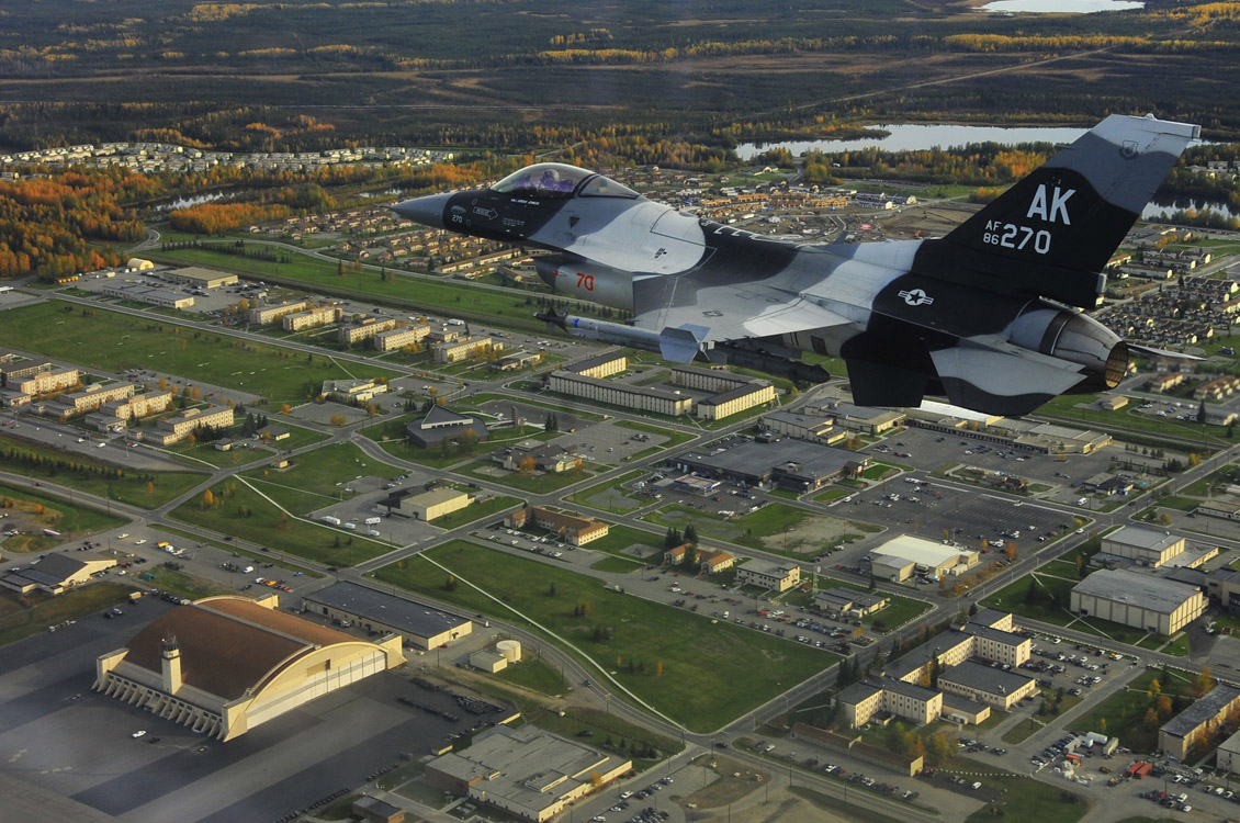 An F-16 from the 18th Aggressor Squadron flies over Eielson Air Force, Base, Alaska, Sept. 14, 2009. The Aggressor Squadron is responsible for training and preparing joint and allied aircrews for combat missions. (U.S. Air Force photo/Staff Sgt. Christopher Boitz)